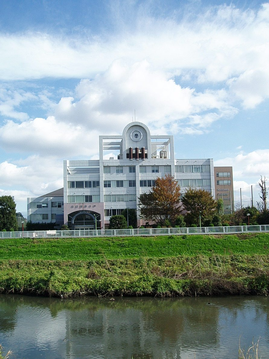 Kawaguchi Junior College viewed from the opposite side of Shiba River. Located in Kawaguchi, Saitama Pref., Japan.